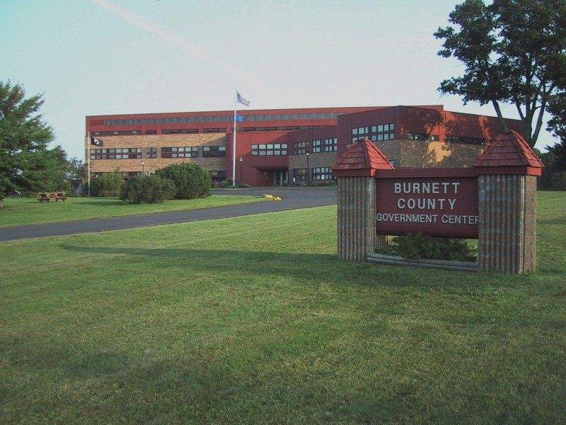 Photo taken Aug 18, 2004. Donated to the public domain